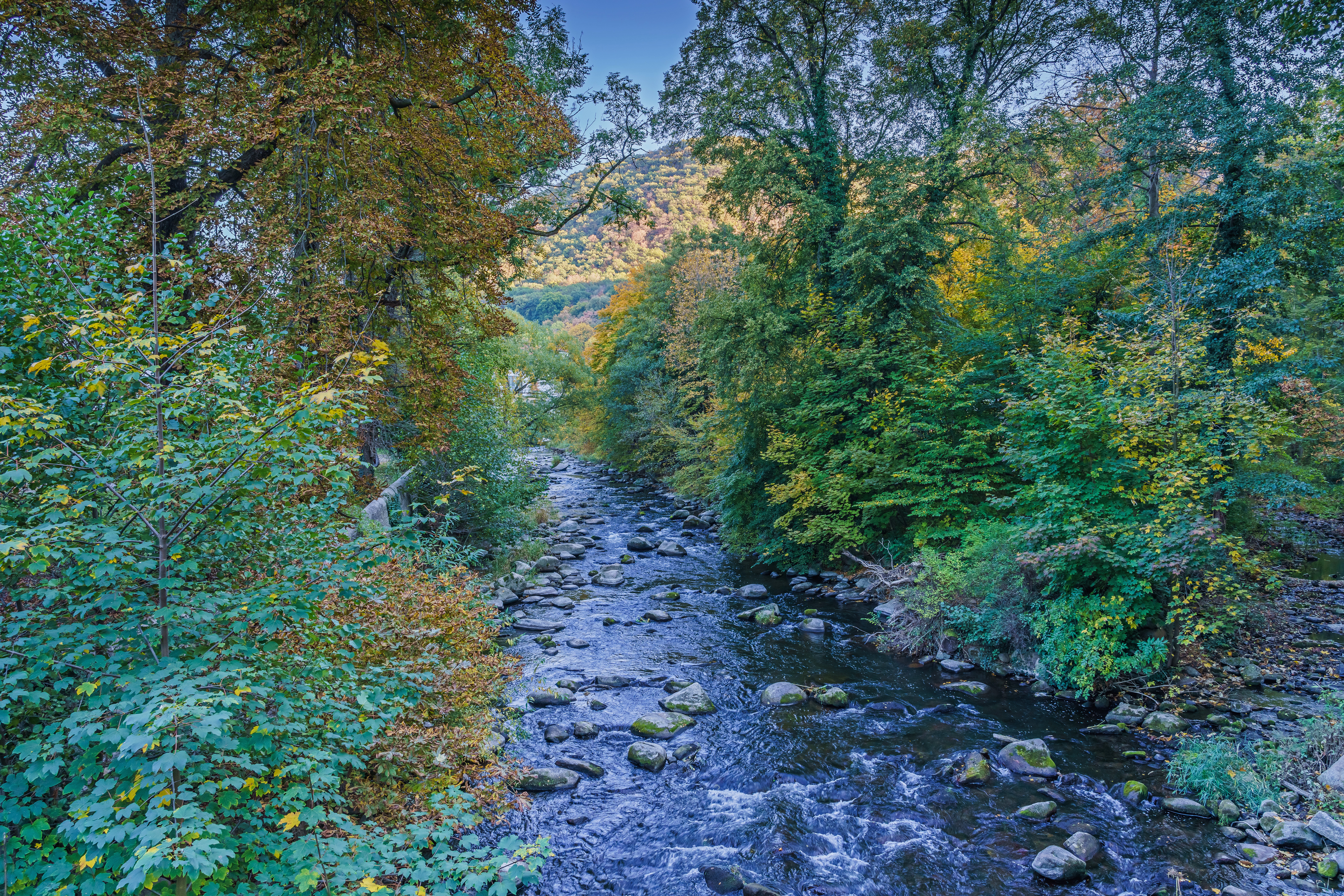 Bode River in Thale, Germany